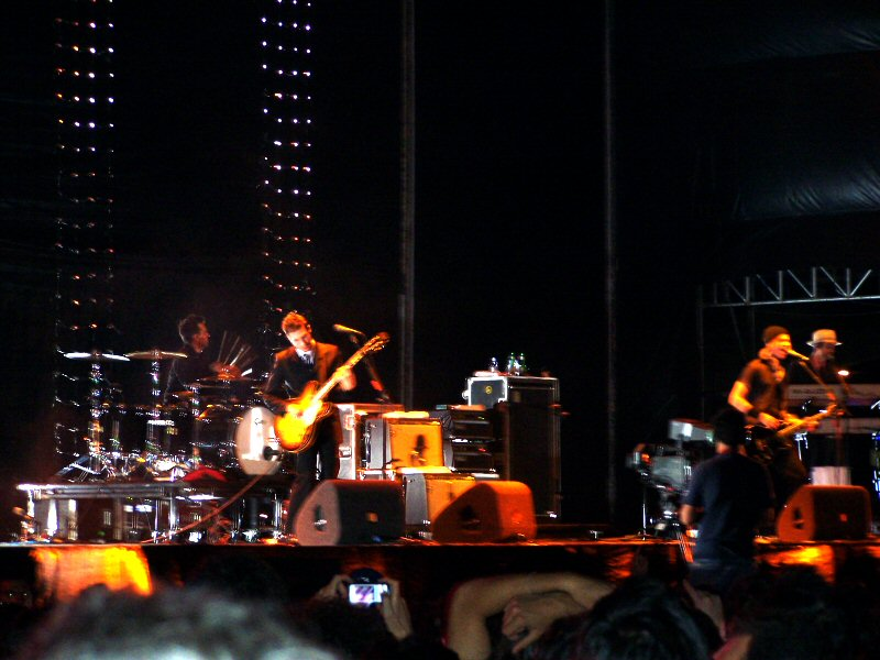 Interpol (band) - live concert - at Super Bock Super Rock Festival (Portugal)